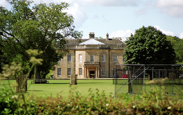 Cokethorpe Park, Hardwick